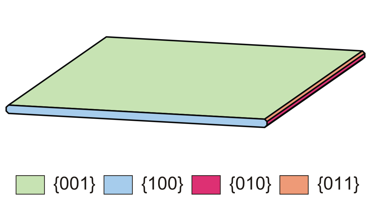 Drawing of a tabular botallackite crystal; reference: W. Krause (2006), Powder Diffraction vol. 21, page 59